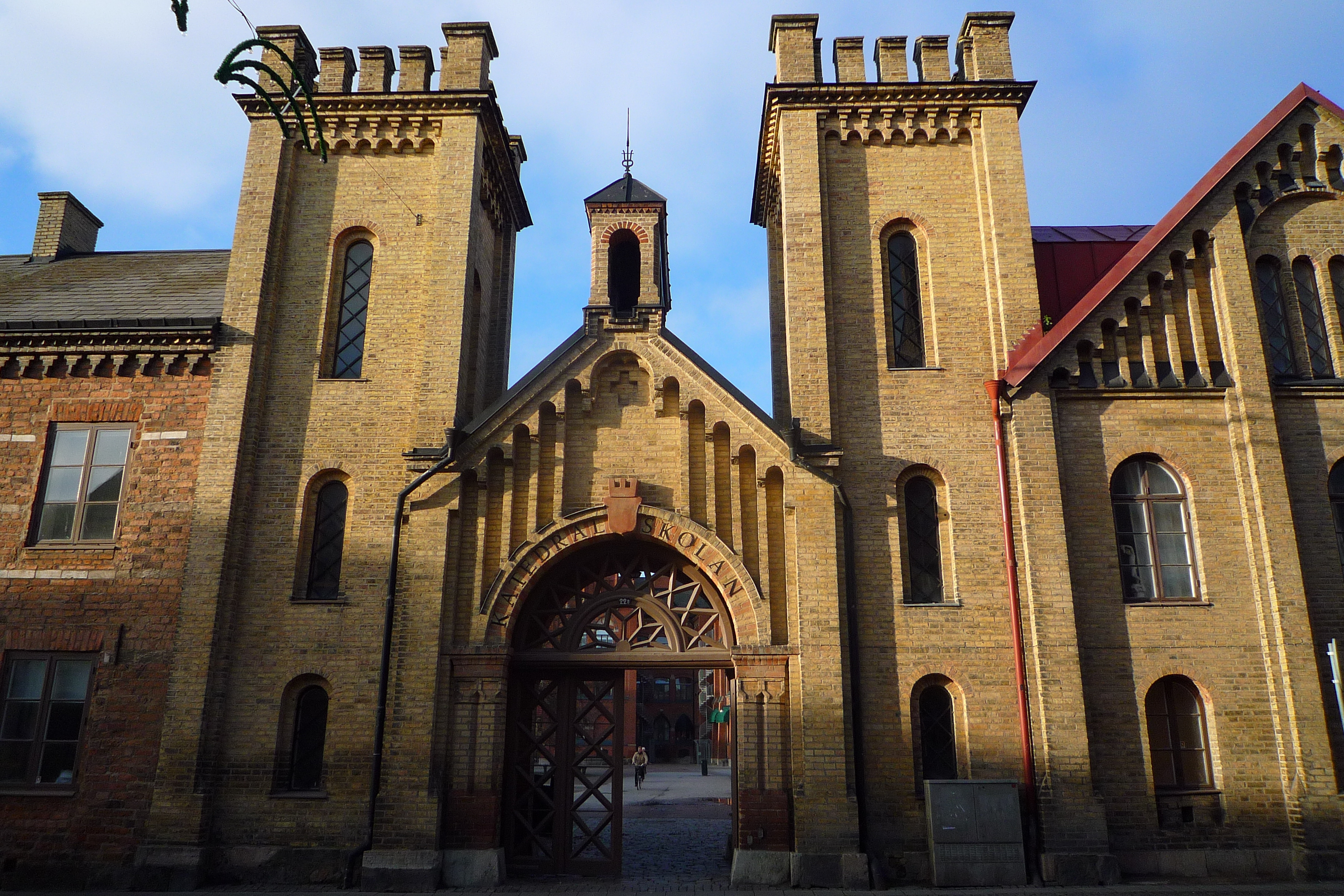 Karl XII-huset of Katedralskolan in Lund